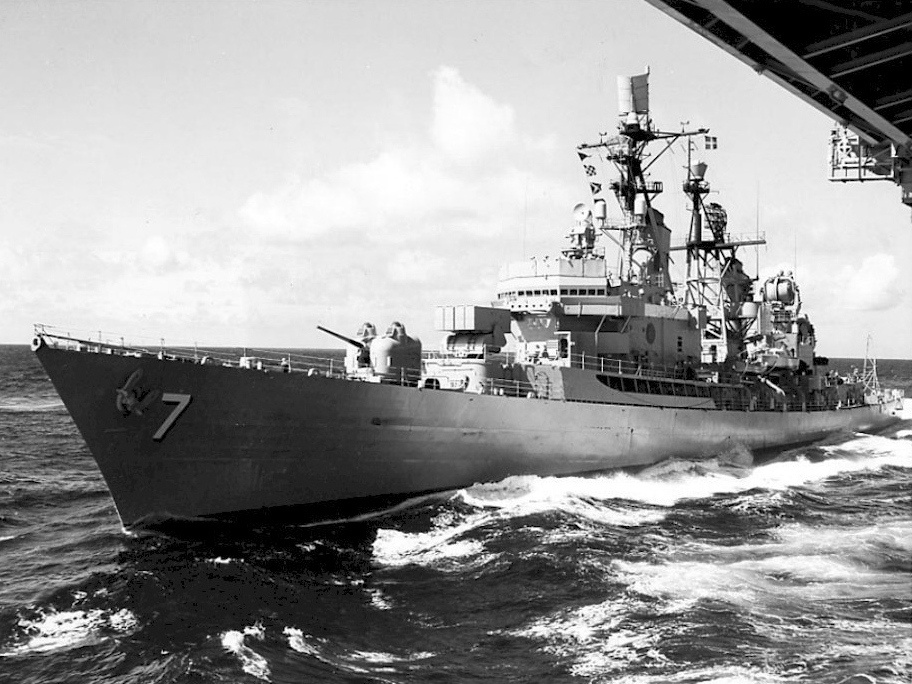 The U.S. Navy guided missile destroyer USS Luce (DLG-7) coming alongside the aircraft carrier USS Enterprise (CVAN-65) while enroute to the Mediterranean on 8 August 1962. Note that Luce was originally equipped with the SPQ-5 guidance radars for the RIM-2 Terrier missiles.